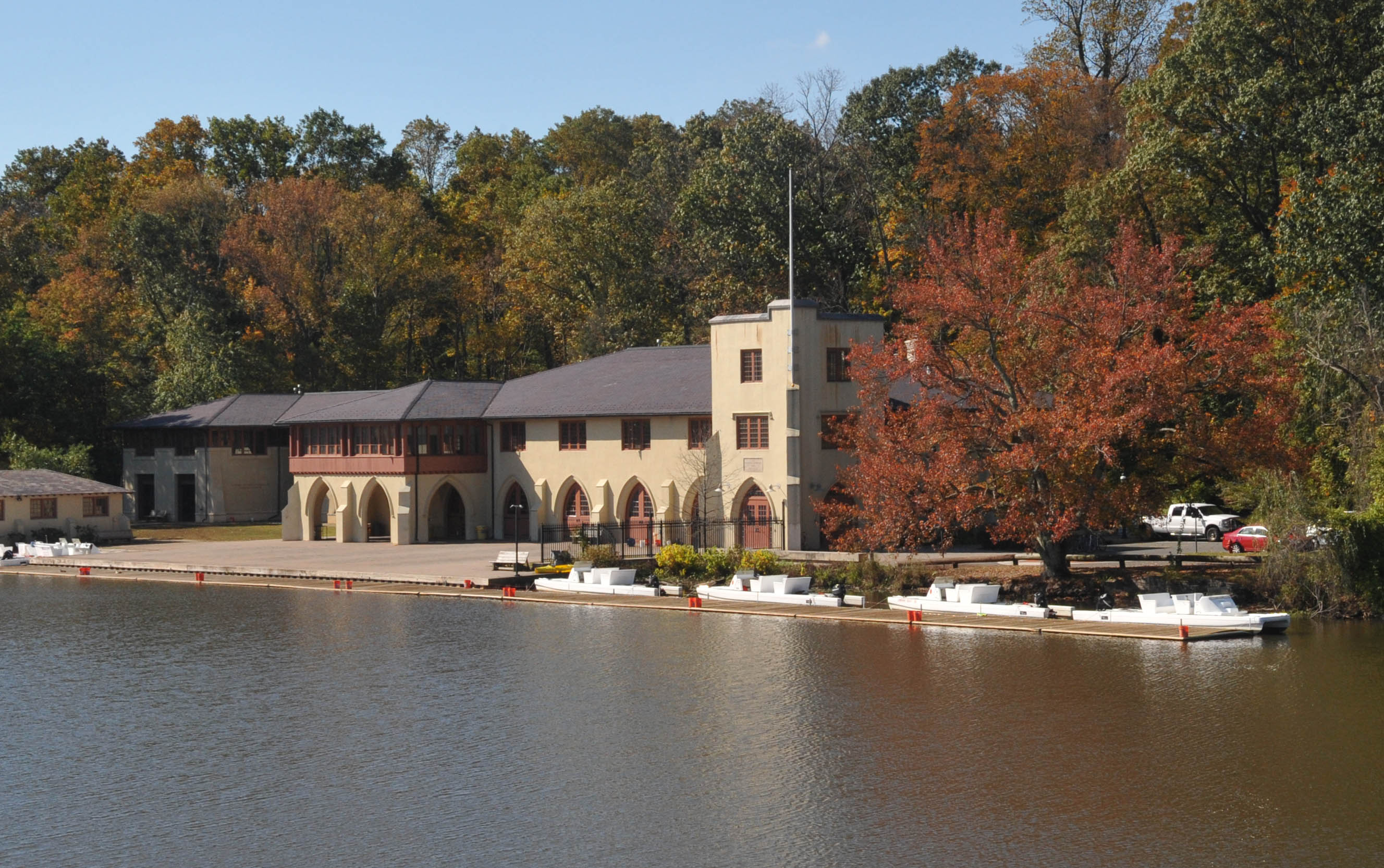 CLASS OF 1887 BOATHOUSE BUILT IN 1913 IN MISSION GIOTHIC STYLE; IT IS STILL USED BY PRINCETON CREW-RELATED ACTIVITIES